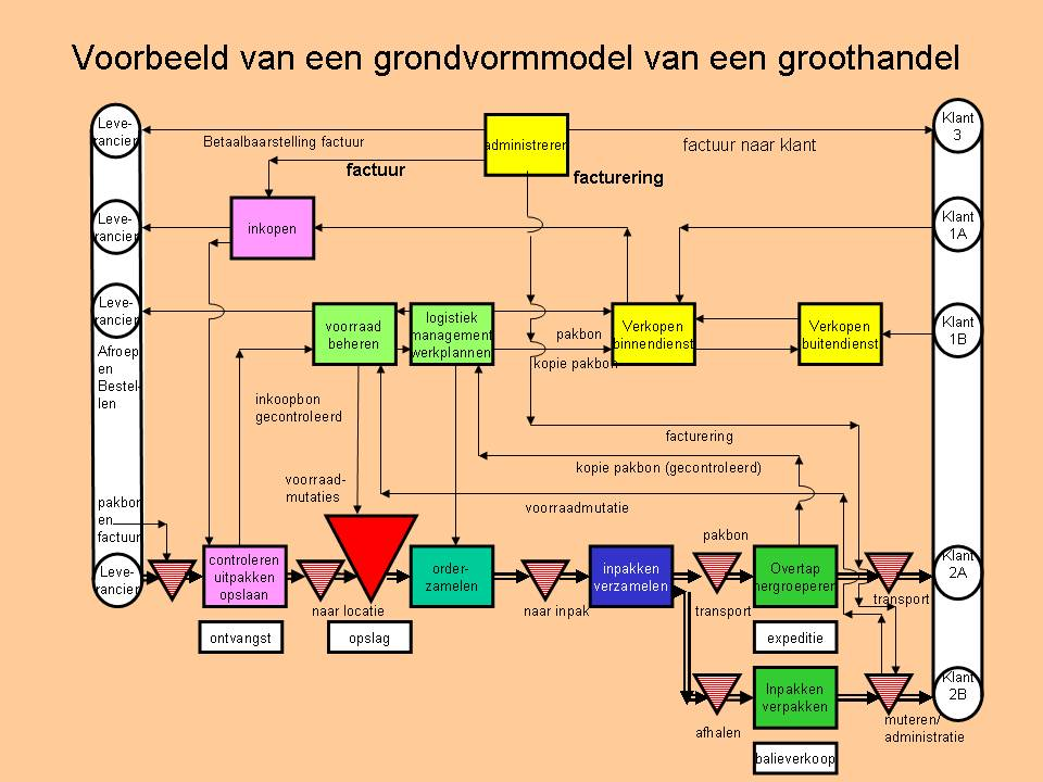 Diagram of the logistic basis of a wholesaler.